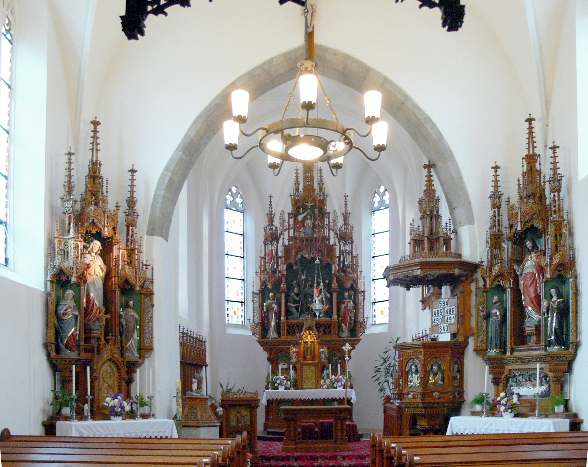 St.Oswald. Parish church: Interior